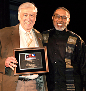 A.B. Spellman (right) with the 2008 recipient of the A.B. Spellman NEA Jazz Masters Award for Jazz Advocacy, Gunther Schuller (left).